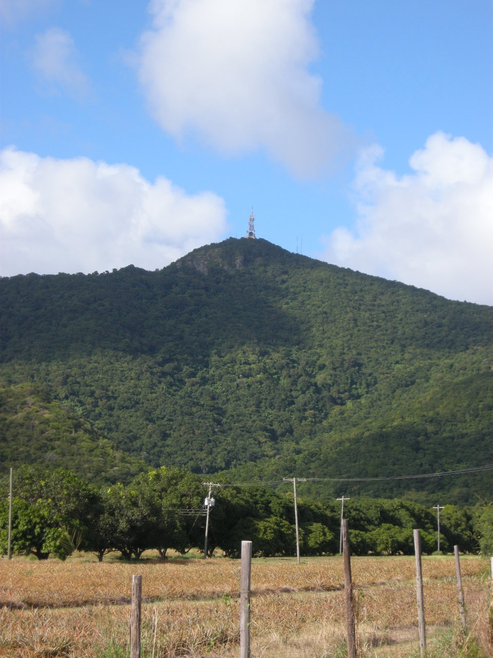 Mount Obama before Boggy Peak